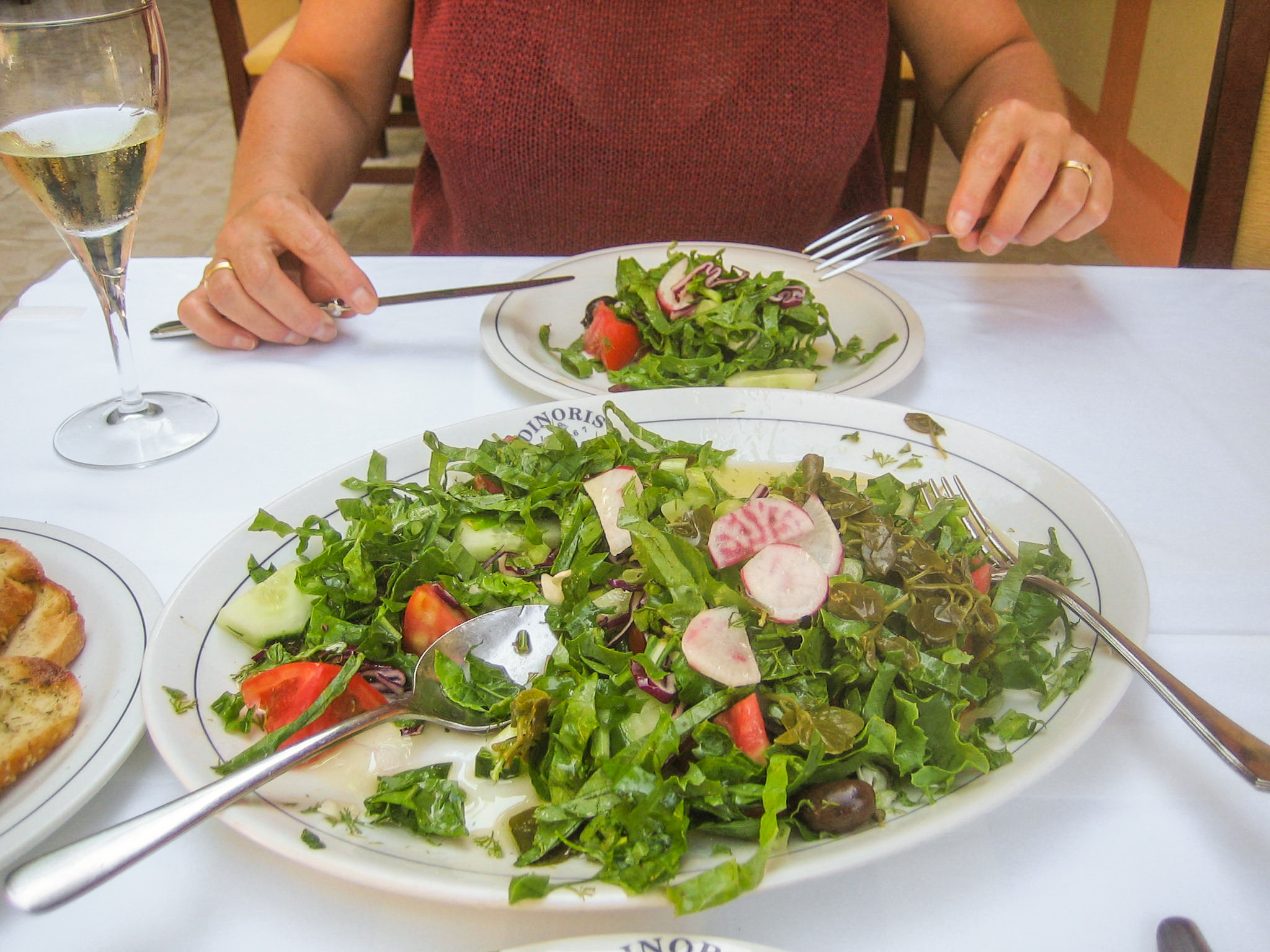 Caper leaves, pickled or boiled, are desirable and rare as a culinary addition to salads.